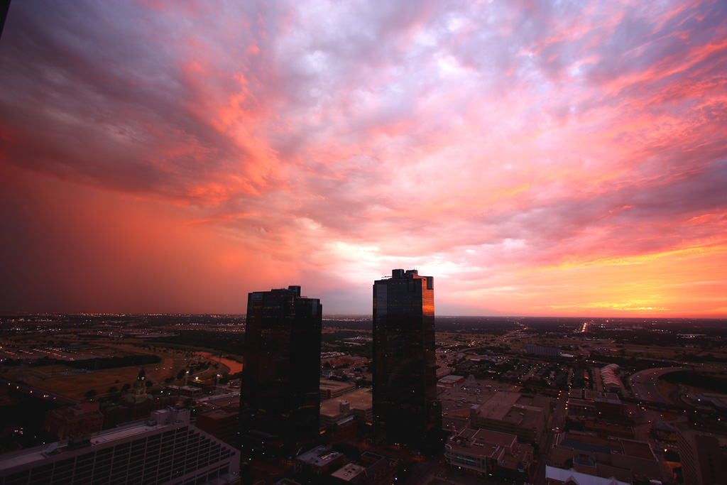 Fort Worth Texas, Downtown from my 34th floor condo. Storm coming in from the North